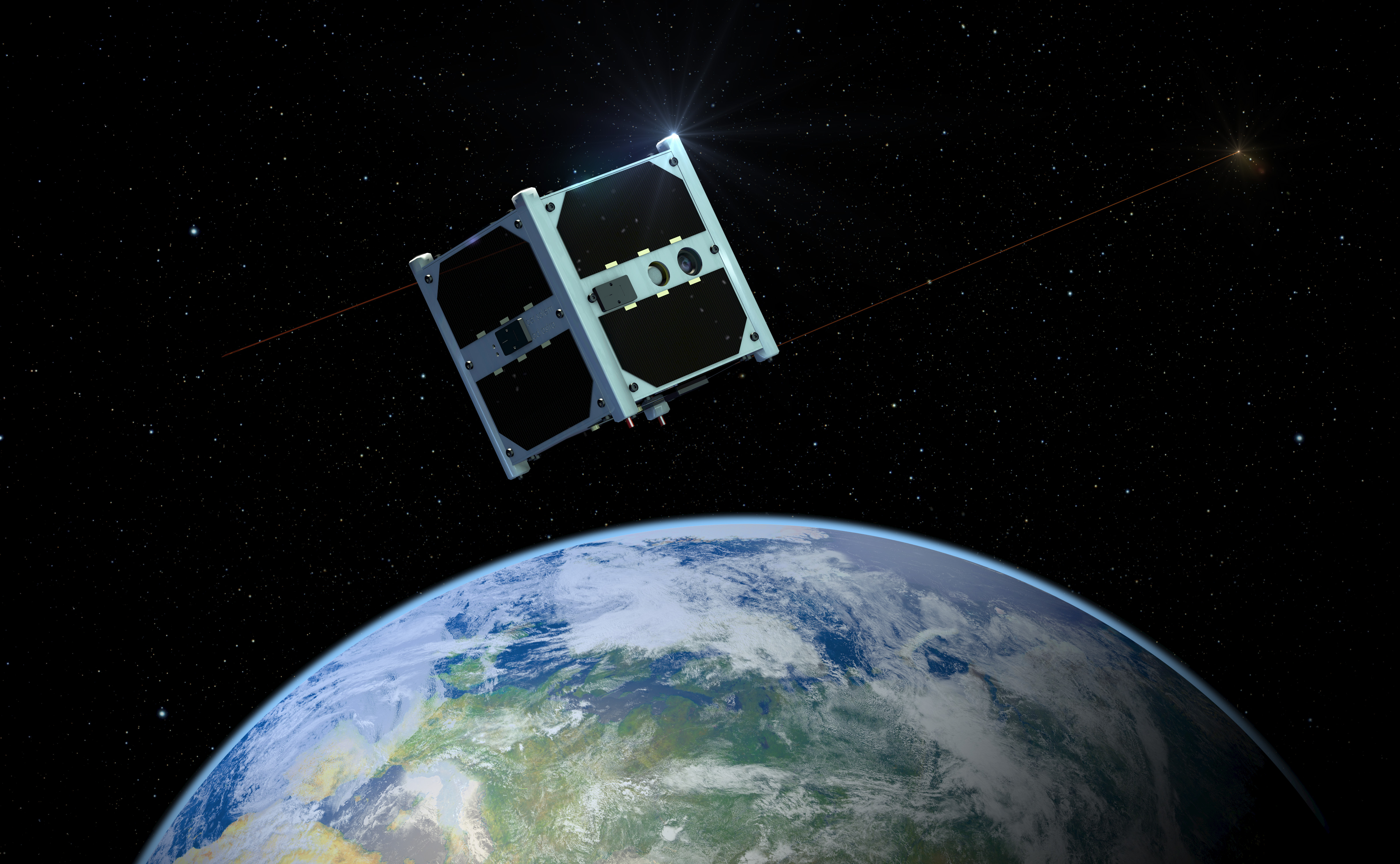 Artist's impression of Estonian nanosatellite ESTCube-1 on orbit.